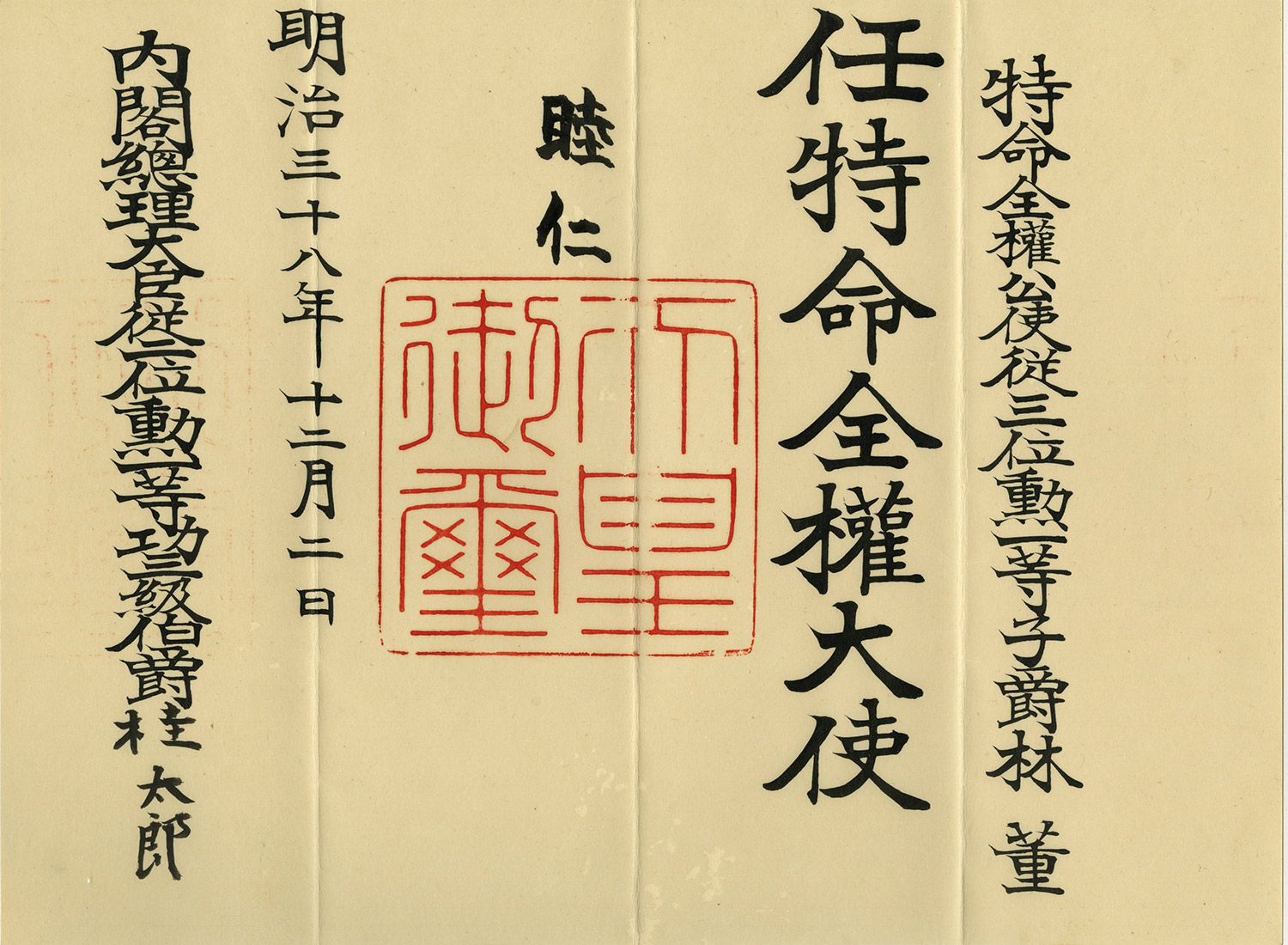 Emperor Mutsuhito presented the letter of appointment for the Ambassador to Tadasu Hayashi on December 2, 1905.